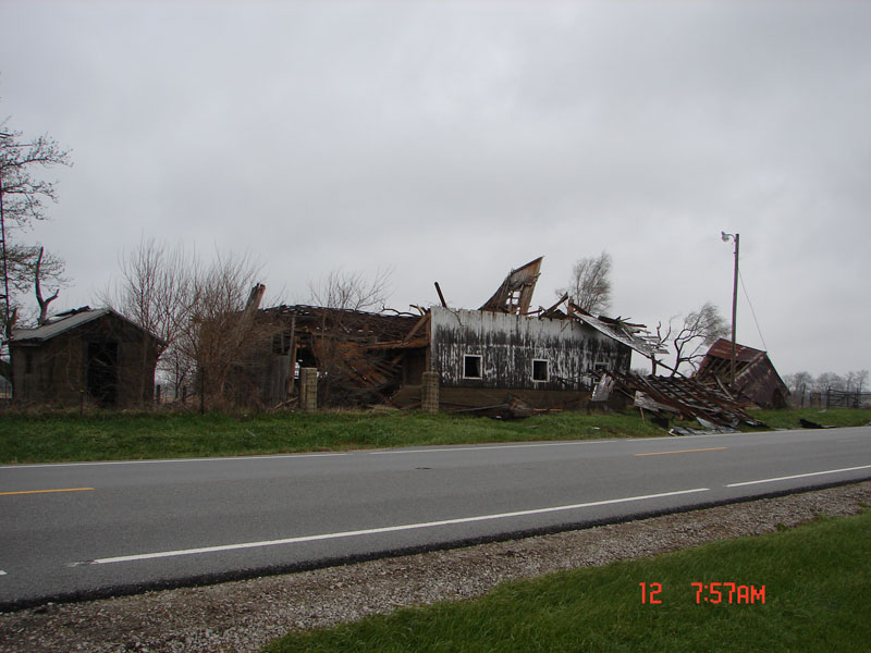 Damage left by an EF2 (Enhance Fujita scale level 2) on April 11, 2007 in Arcadia, Indiana, USA. An EF2 rating was assigned to this tornado given the significant destruction of a barn, and the tornado moving a dual wheel pickup truck/trailer rig nearly fifteen feet. Winds were estimated near 120 mph. Several other outbuildings suffered major damage while several homes exhibited moderate to minor damage.